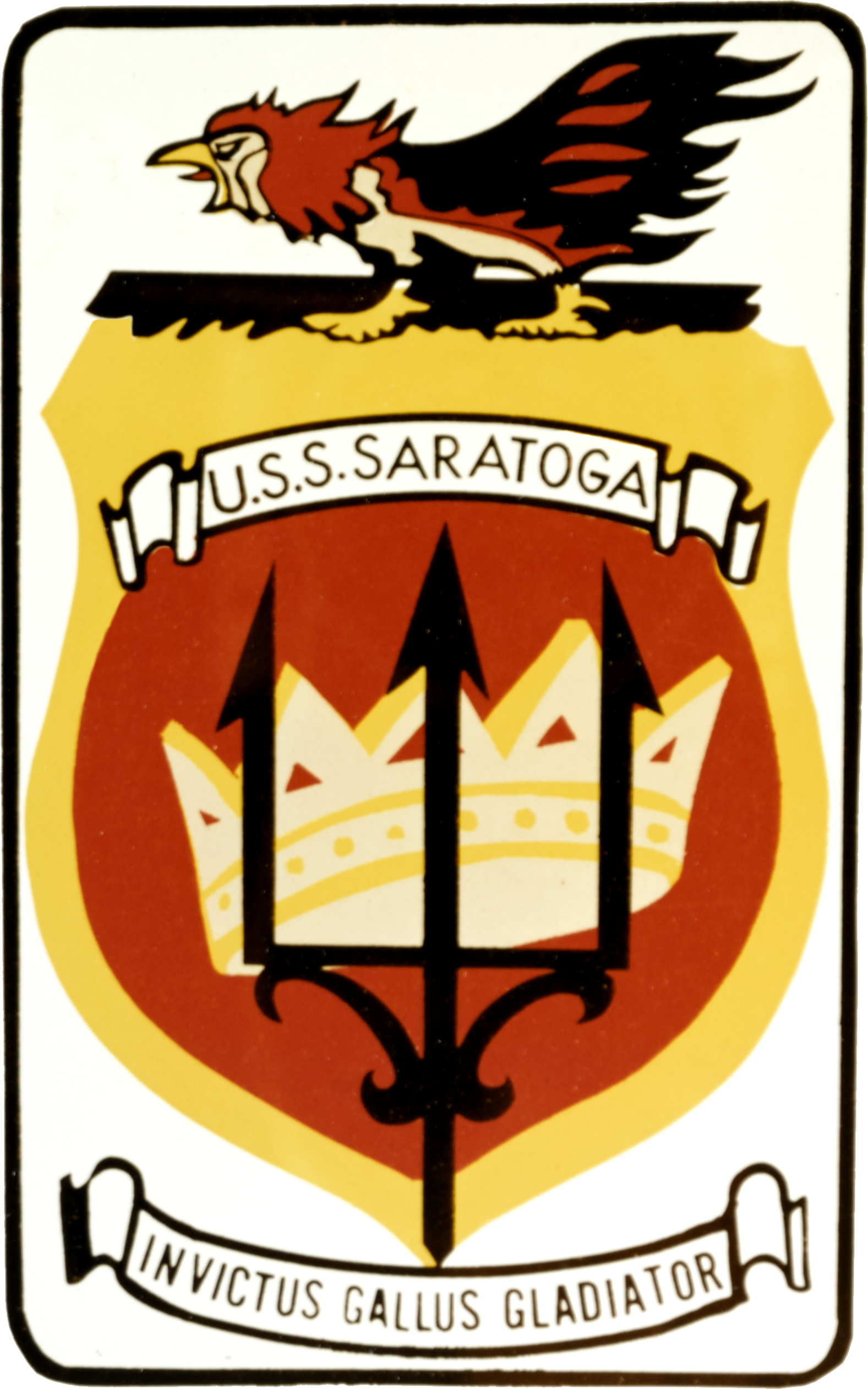 Insignia of the U.S. Navy aircraft carrier USS Saratoga (CVA-60). Description (NHHC): "The insignia was received in 1958. It features a fighting gamecock, traditional symbol of U.S. ships named Saratoga, standing on an outline shield, representing the shield of the federal government. The silhouette behind is that of the CVA-60. Upon the shield itself are a symbolic crown and a trident, reflecting Saratoga's claim as queen of the dreadnaughts. The trident is the symbol of her domain. The dominant colors are red and yellow. The former stands for the blood of thousands of Americans, spilled to maintain our freedoms. The latter represents the Saratoga's readiness to thwart aggression. The Latin motto is translated: "Unconquered fighting cock"." Saratoga was redesignated CV-60 on 1 July 1975.